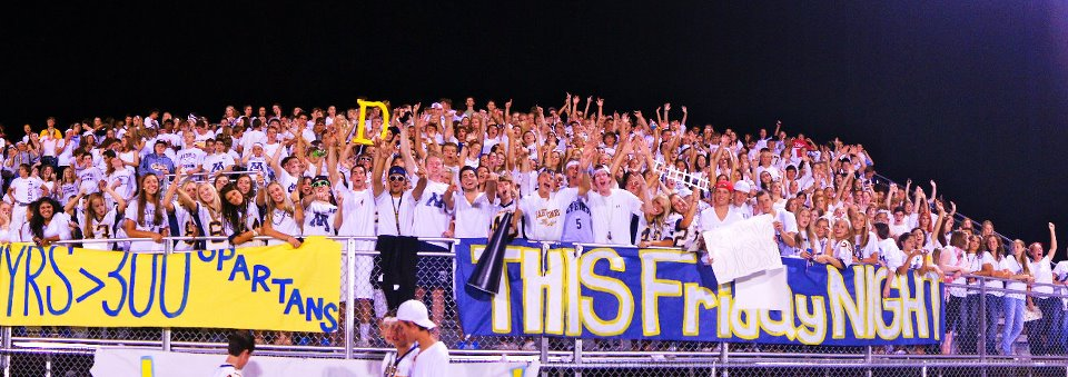 Student Section at Football game